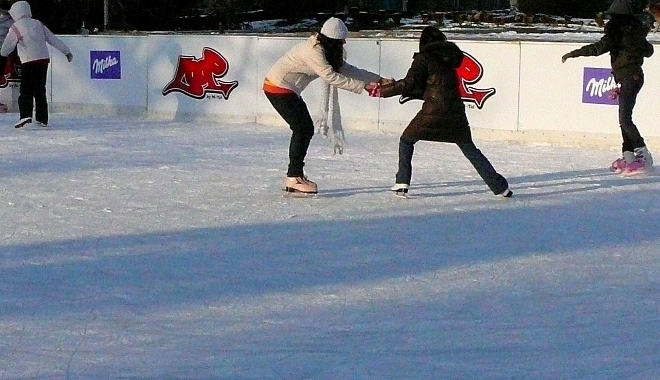 Skaters - Sofia,Bulgaria